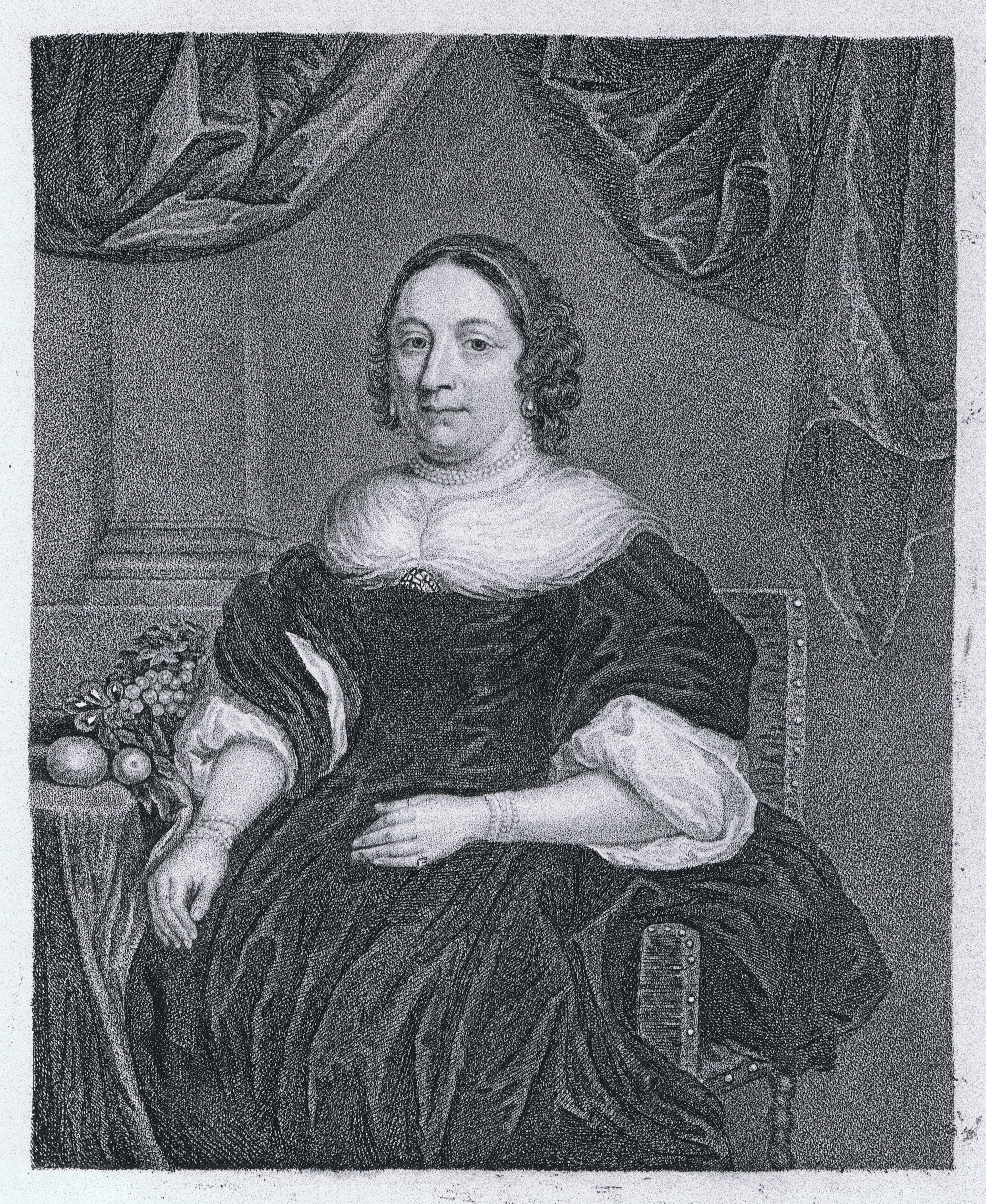 Repro of an engraving of Rachel, Countess of Middlesex, in middle age, c.1660-1670.